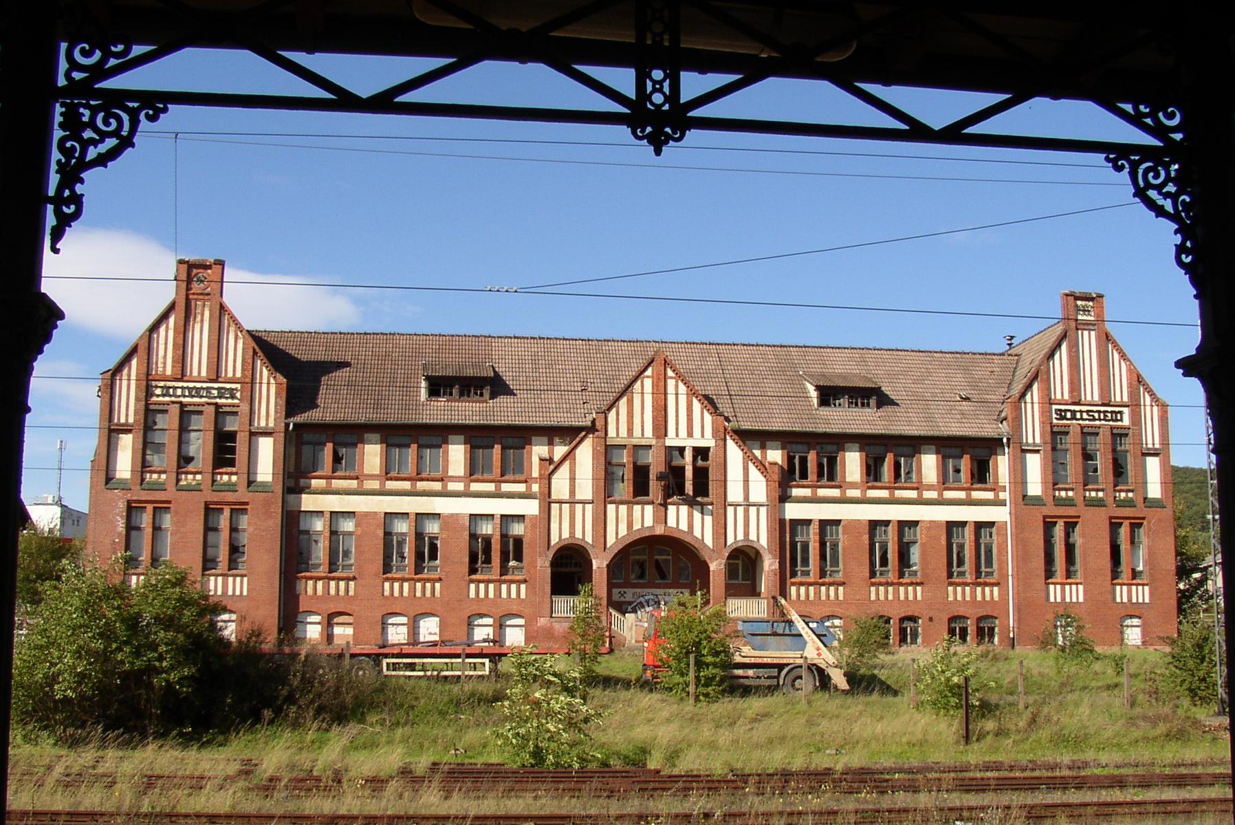 Potash company building in Sollstedt in Thuringia, Germany